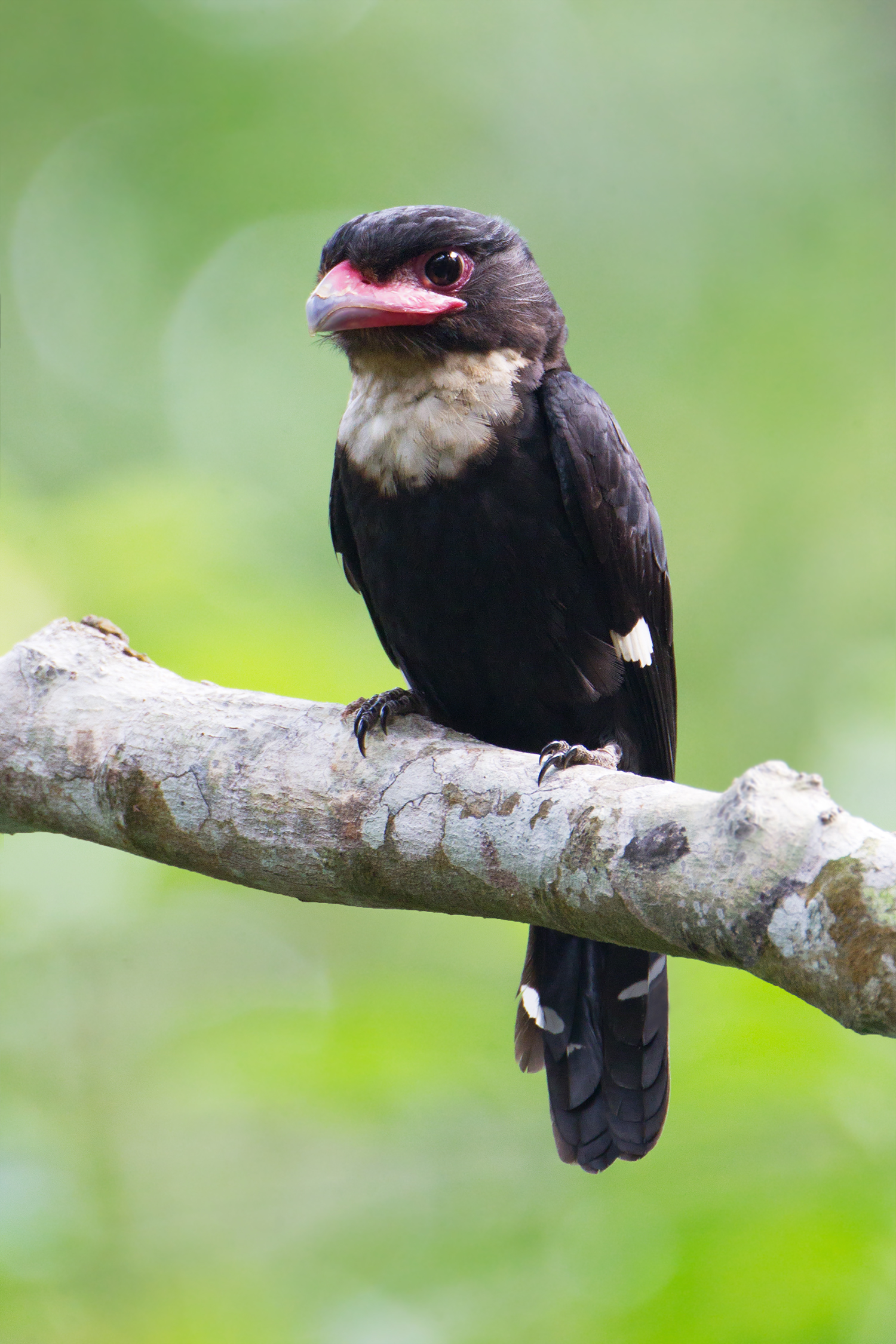 Dusky Broadbill (Corydon sumatranus), Khao Yai National Park, Nakhon Ratchasima, Thailand